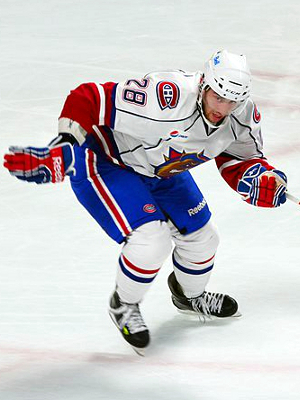 Hamilton Bulldogs' player, Aaron Palushaj, in a game against the Syracuse Crunch at the Bell Centre of Montreal.